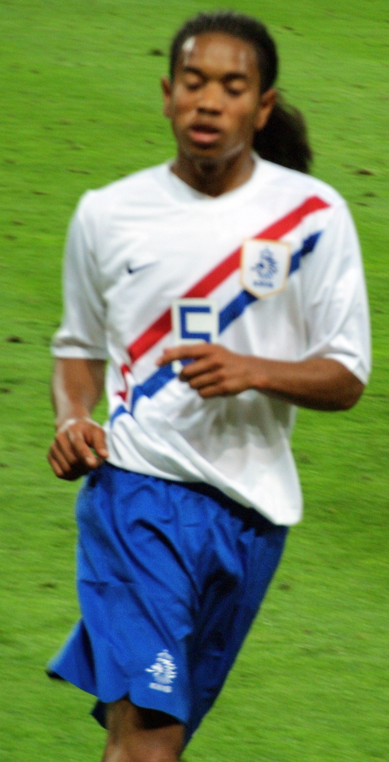 Urby Emanuelson